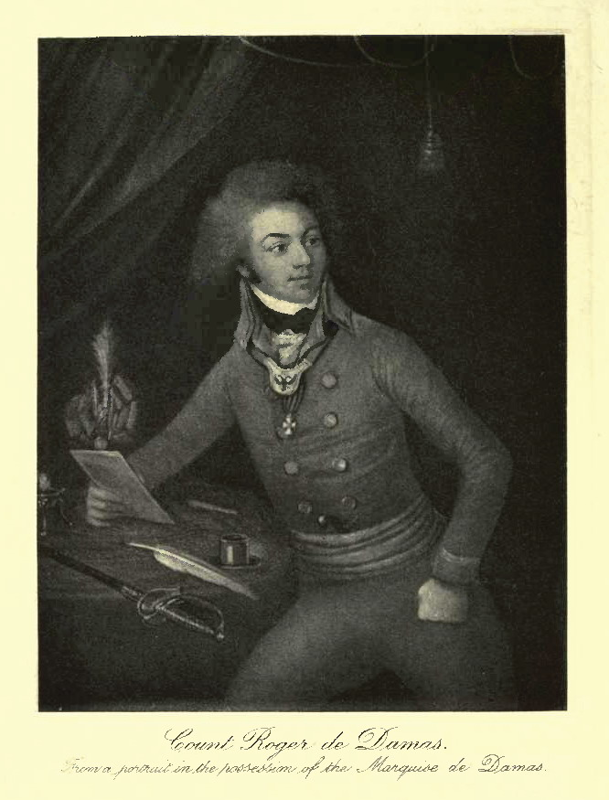 Portrait of count Roger de Damas from Memoirs of the Comte Roger de Damas (1787-1806), a cura di Jacques Rambaud, traduzione di Rodolph Stawell, Chapman and Hall ltd., Londra, 1913. Publi domain